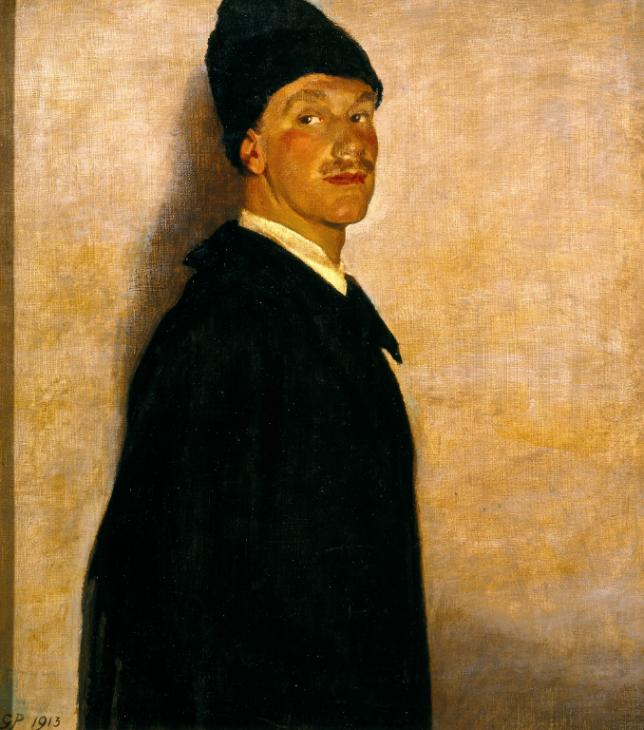 The Man in Black 1913 Glyn Warren Philpot 1884-1937 Presented by Francis Howard through the National Loan Exhibitions Committee 1914